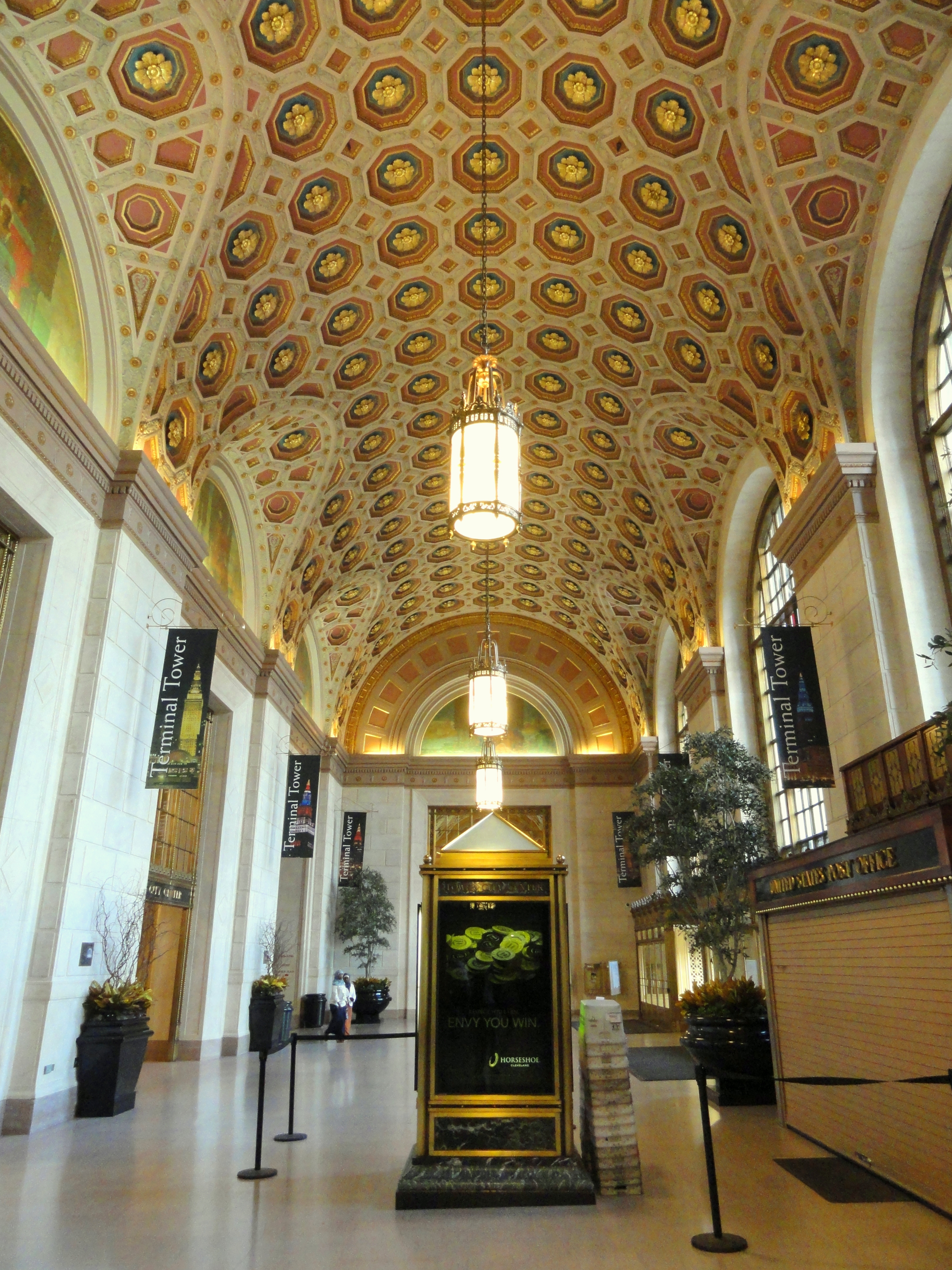 Tower City Center, Cleveland, Ohio, USA.